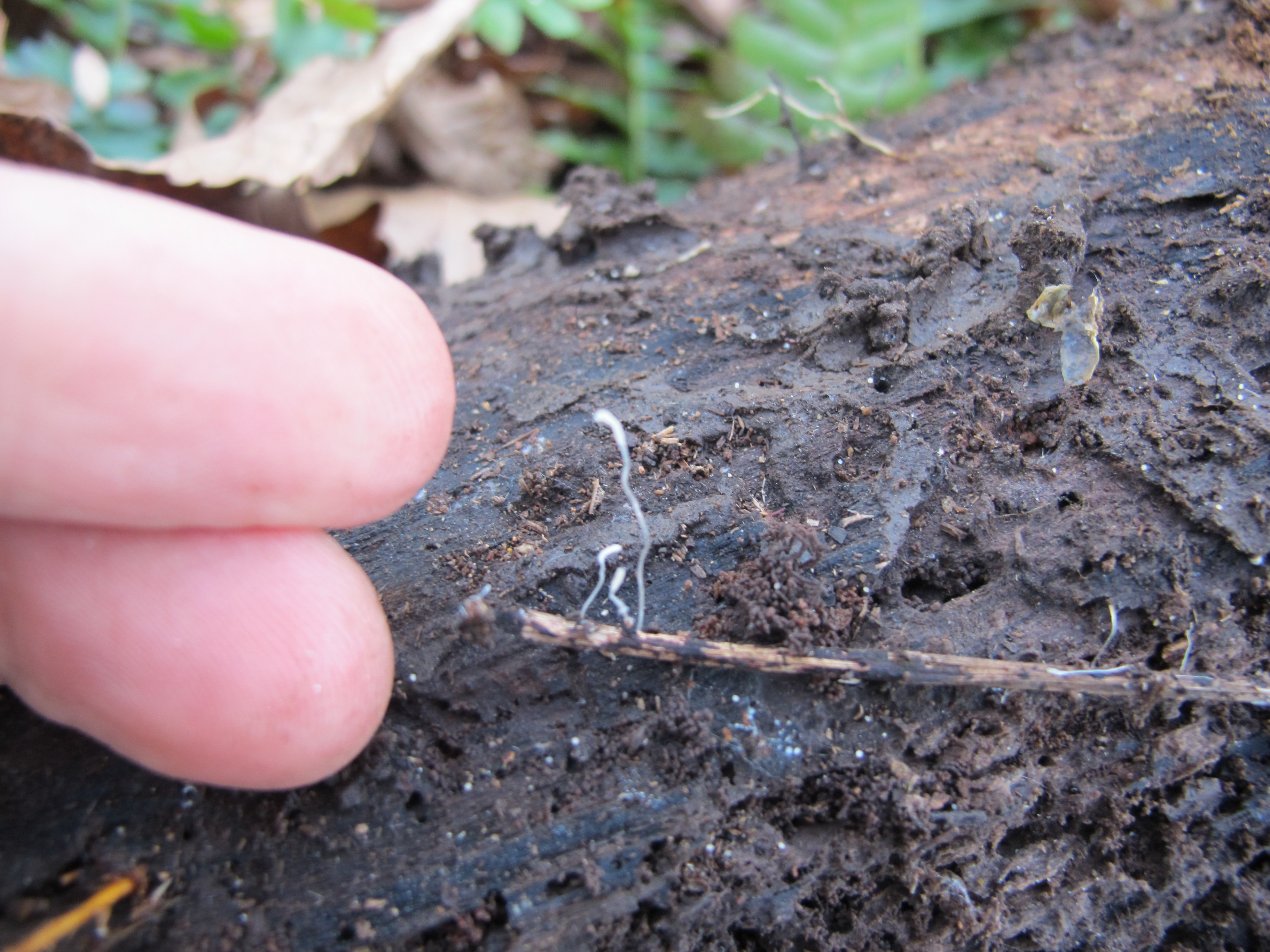 Typhula quisquiliaris